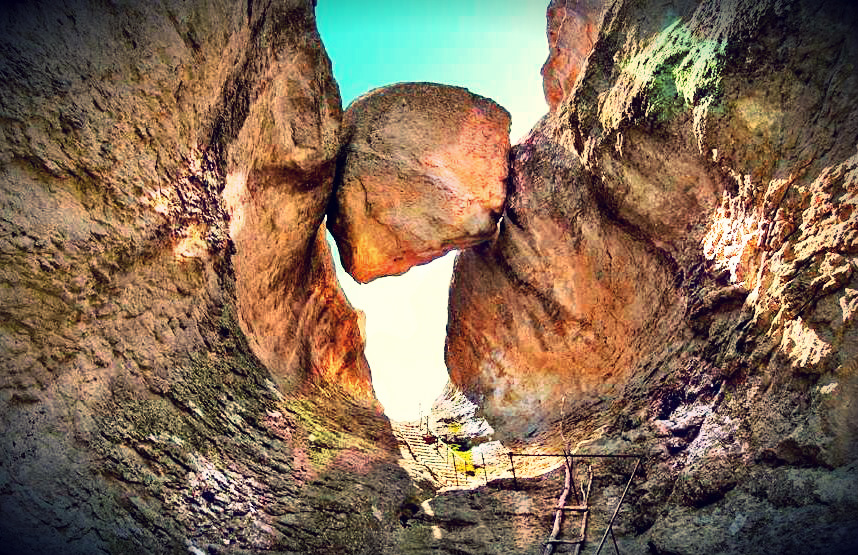 Karadzhov_Magalith